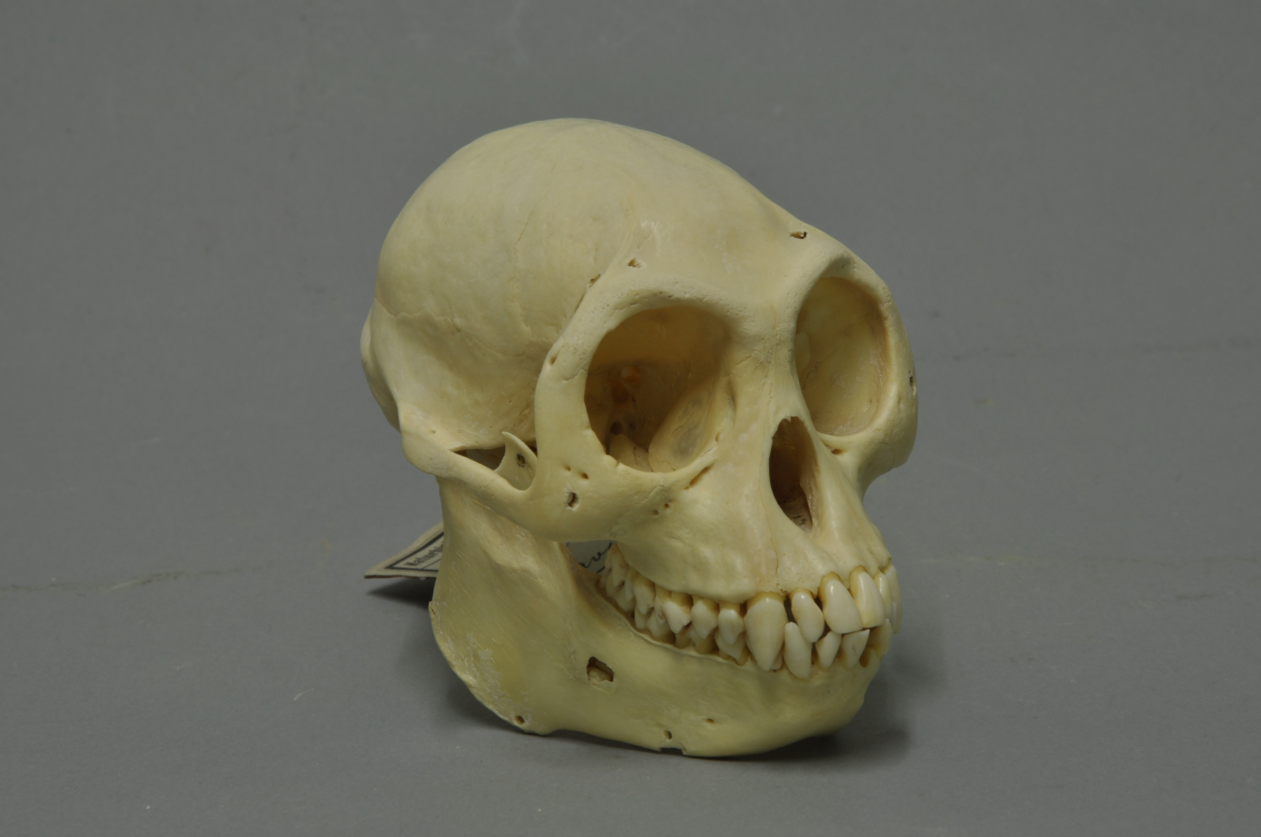 Javan lutung Trachypithecus auratus skull, Coll. Museum Wiesbaden